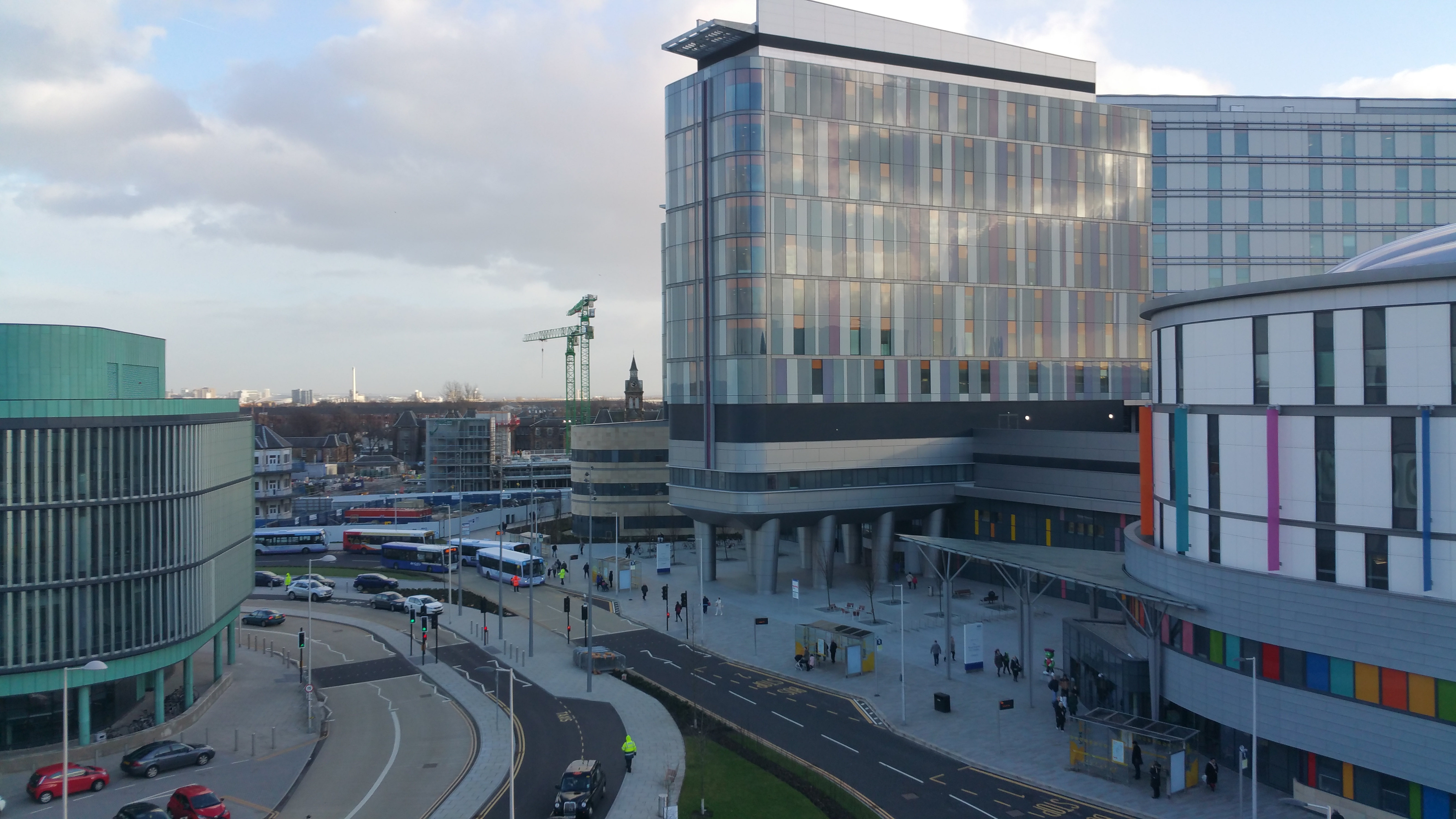 A photo of the Queen Elizabeth University Hospital showing the laboratory building on the left and the adult and children's buildings on the right.